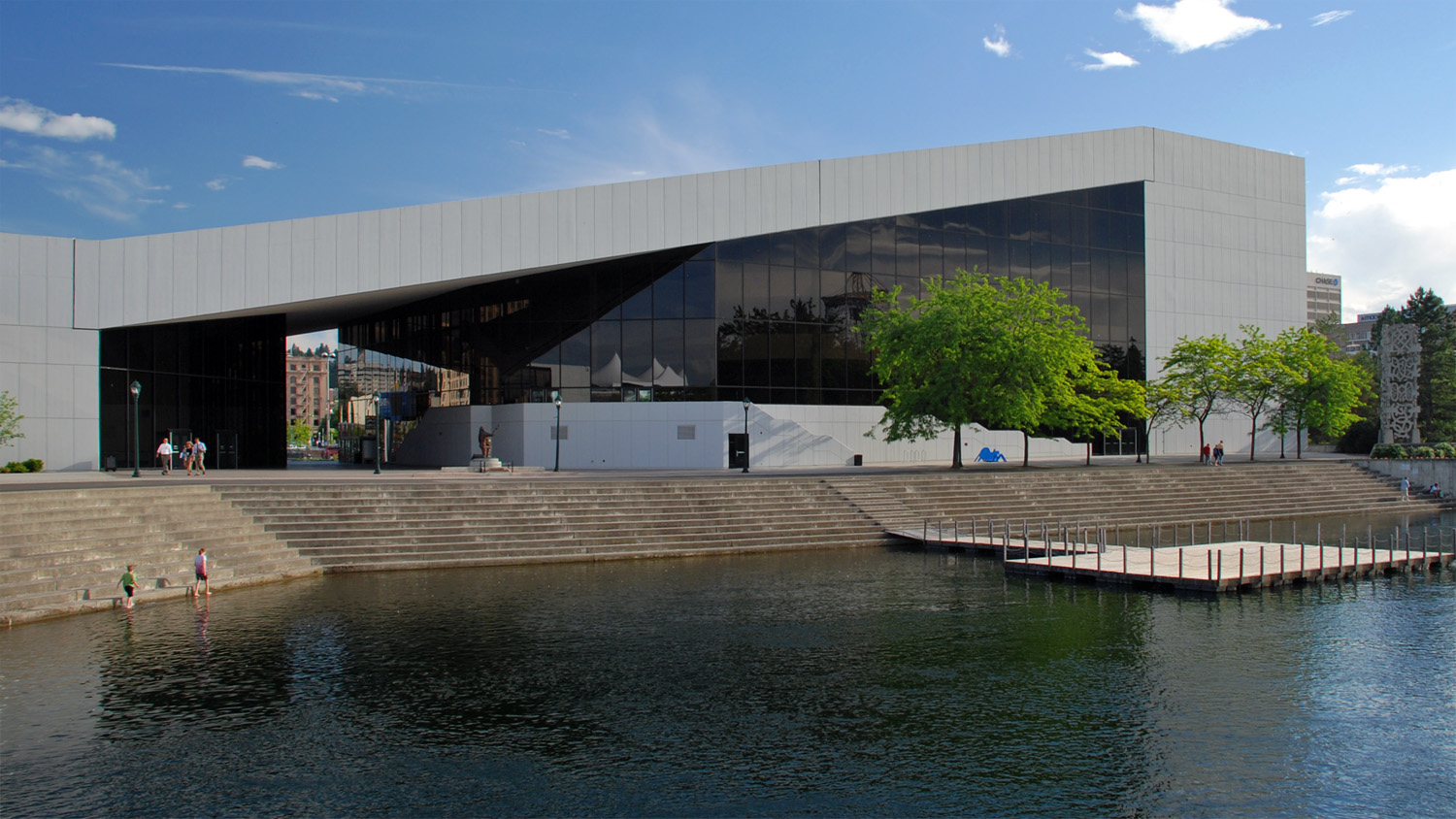 View of the north side of the INB Performing Arts Center in Spokane, Washington.